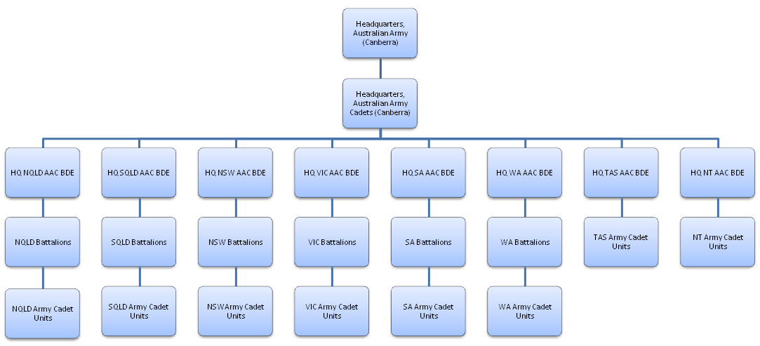 adapted from dotpoints in the Australian Army Cadets article